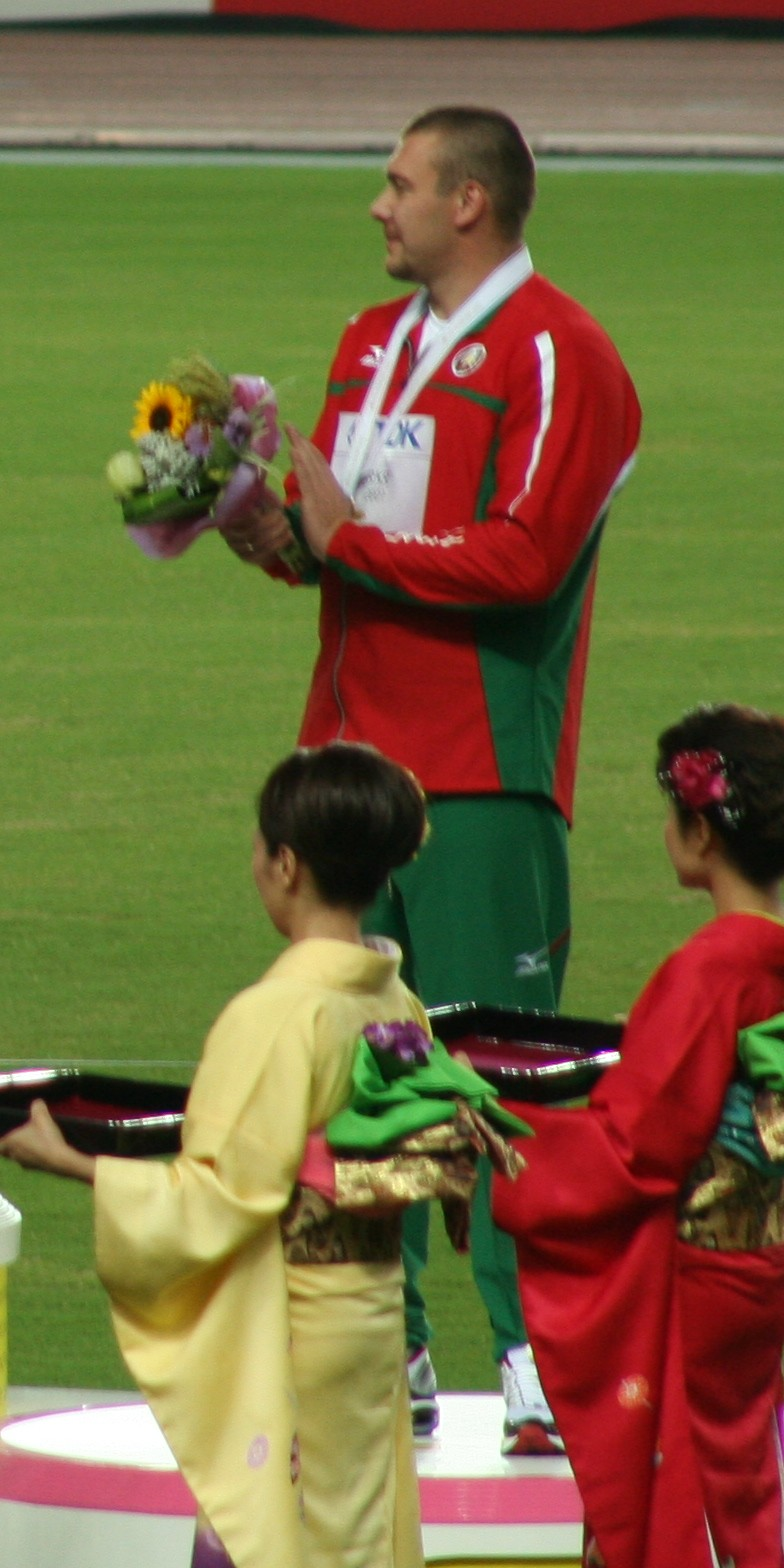 World Athletics Championships 2007 in Osaka - Andrei Mikhnevich at the Men's Shot Put Victory Ceremony